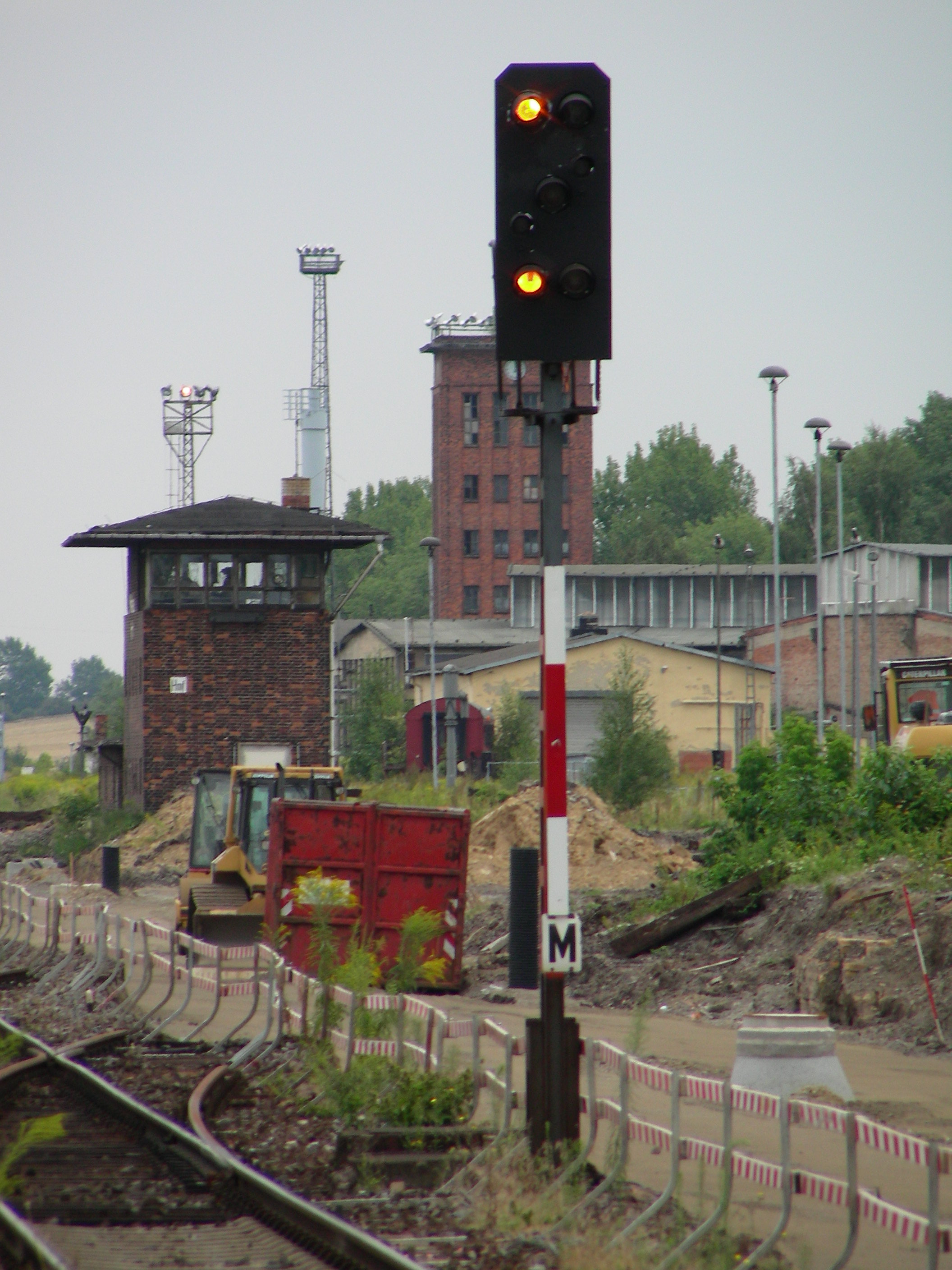 Hl-Signal of the German railway